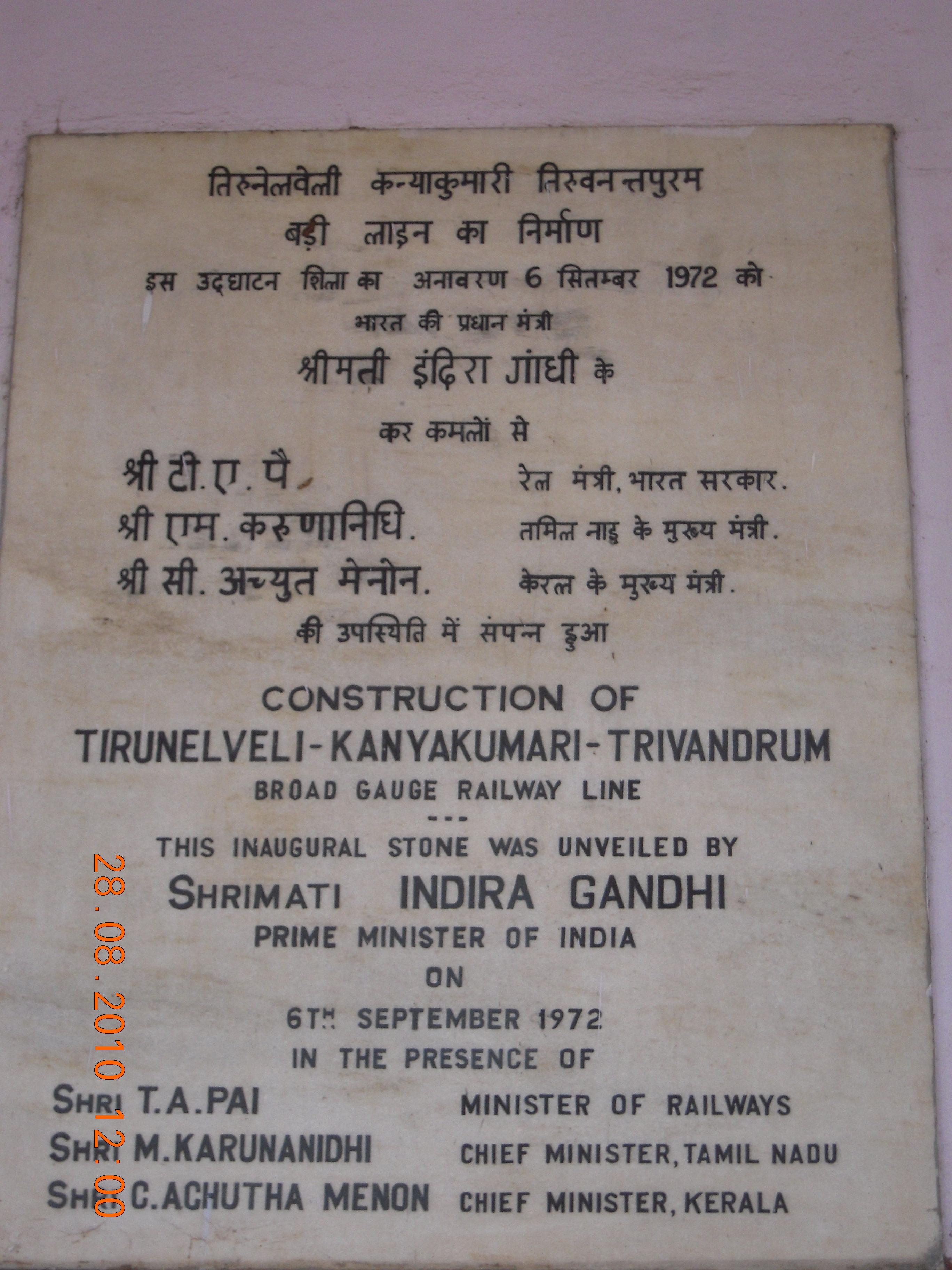 Kanyakumari - Trivandrum Railway track function details